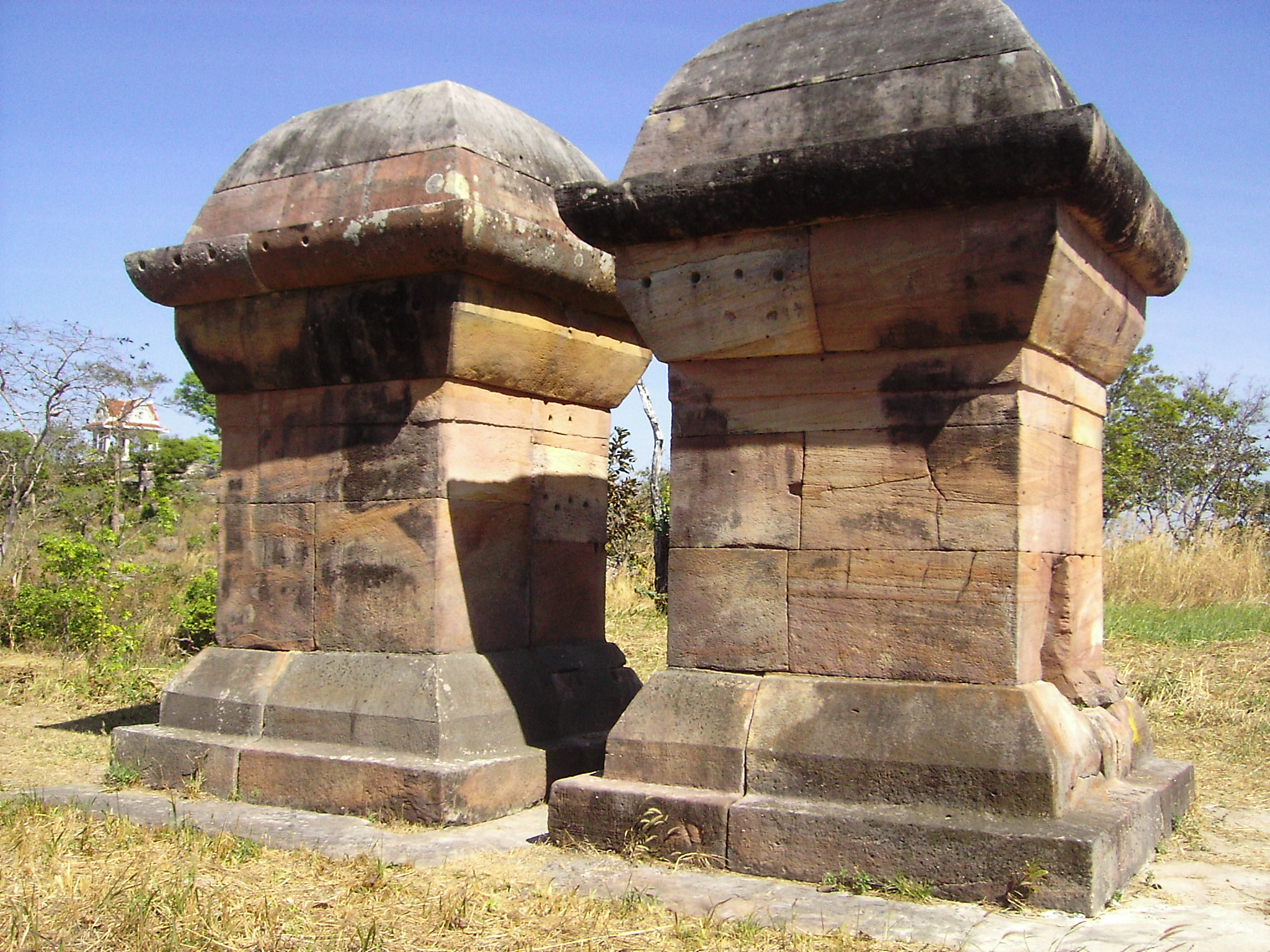 The Twin Stupas are two red sandstone structures, 1.93 m. square and 4.20 m. high, with lotus-bud-shaped apices. It is believed that the pair must have symbolised something of great significance (11th Century).